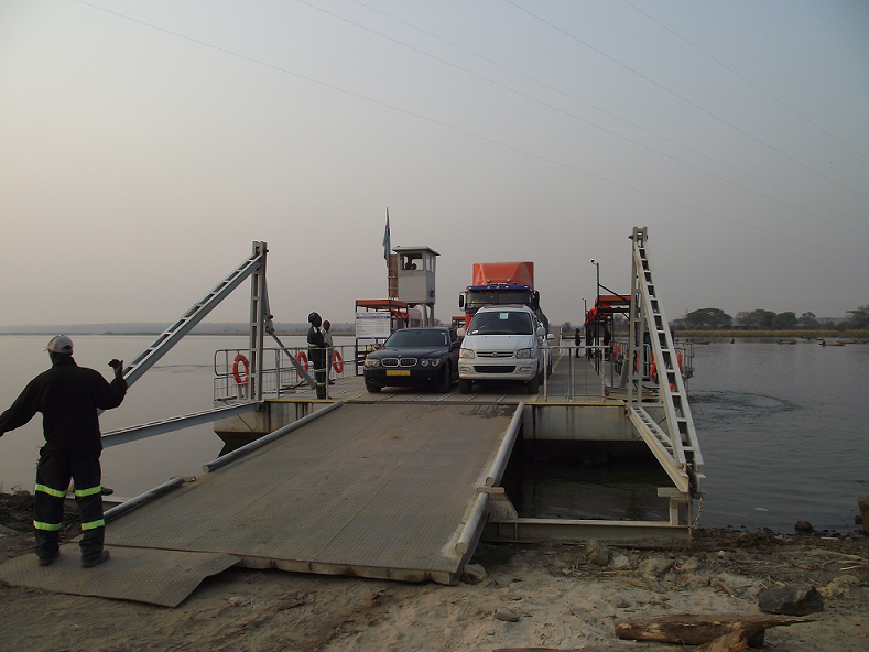 A pontoon ferryat Kazungula (Zambian side)